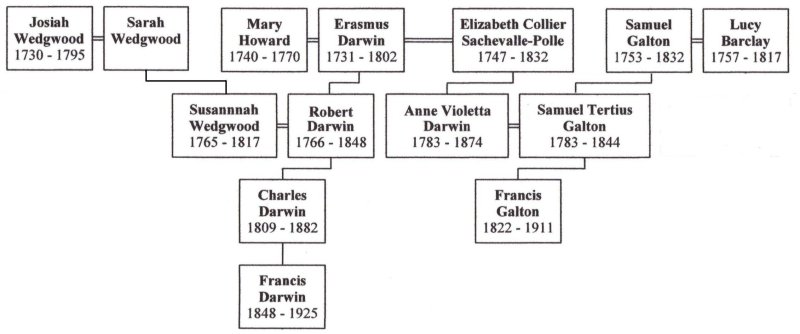 This is a part of the family tree of Charles Darwin and Sir Francis Galton, also known as "The Darwin-Galton-Clan". Most of the (male) members are well known Scientists (with their own articles at Wikipedia). Please note that the three men of the first generation have been close friends and all were members of the Lunar Society.